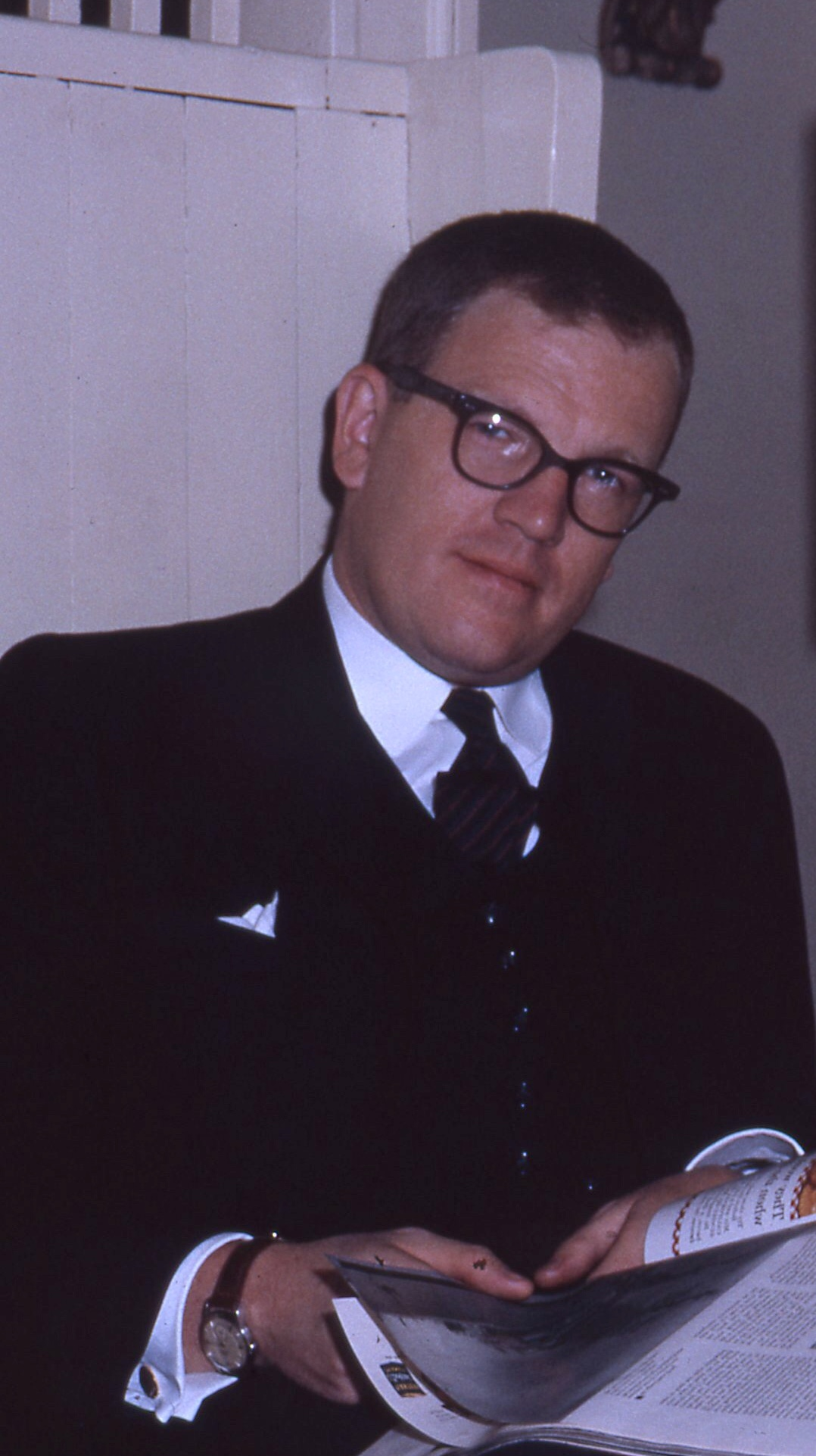 Picture of Alan Milliken Heisey Sr 1962 Toronto